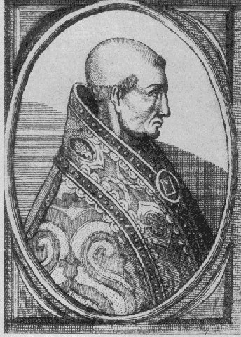 Summary H.H. Pope Urban IV